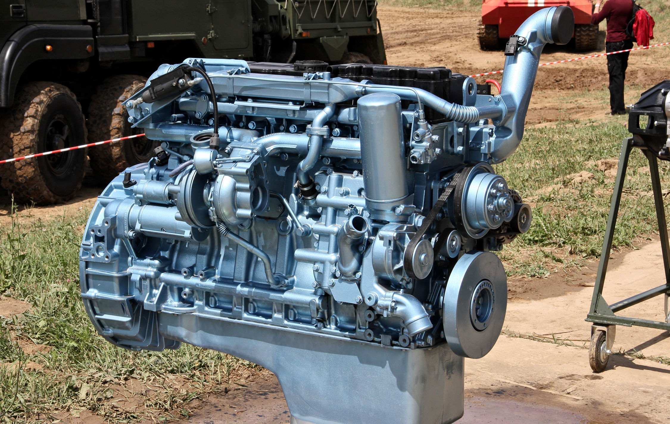 YaMZ-534 diesel engine for Tigr and Volk vehicles.